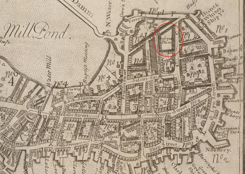 Detail of 1743 map of Boston by William Price, showing the North End and vicinity.